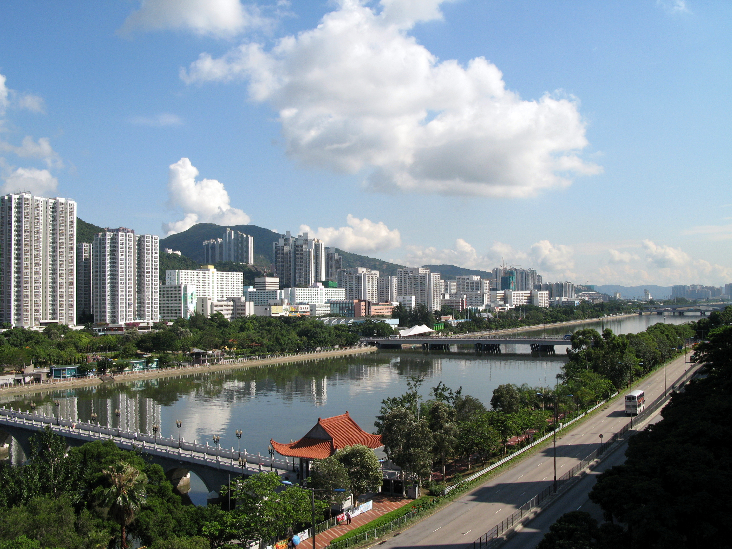 HK Shatin Shing Mun River 沙田城門河